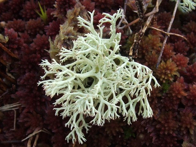 A lichen - Cladonia arbuscula subsp. squarrosa. This species was photographed as part of a quick examination of the mat-forming species of Cladonia in a small area of moorland; see the main item: 1060979. A comparison of the species illustrated here with C. portentosa should make it clear that the pattern of branching is very different; the ends of the branches of C. arbuscula tend to point in the same direction (for example, in this photograph, many of them are pointing down and to the left, while few are pointing up or to the right). Several larger tufts of this species occurred in the selected area, but this small specimen shows the main features more clearly. This is another species that is "fairly common and widespread on acid heathlands, particularly peat moors in upland areas and dunes" [Frank S. Dobson, "Lichens - An Illustrated Guide to the British and Irish Species"].